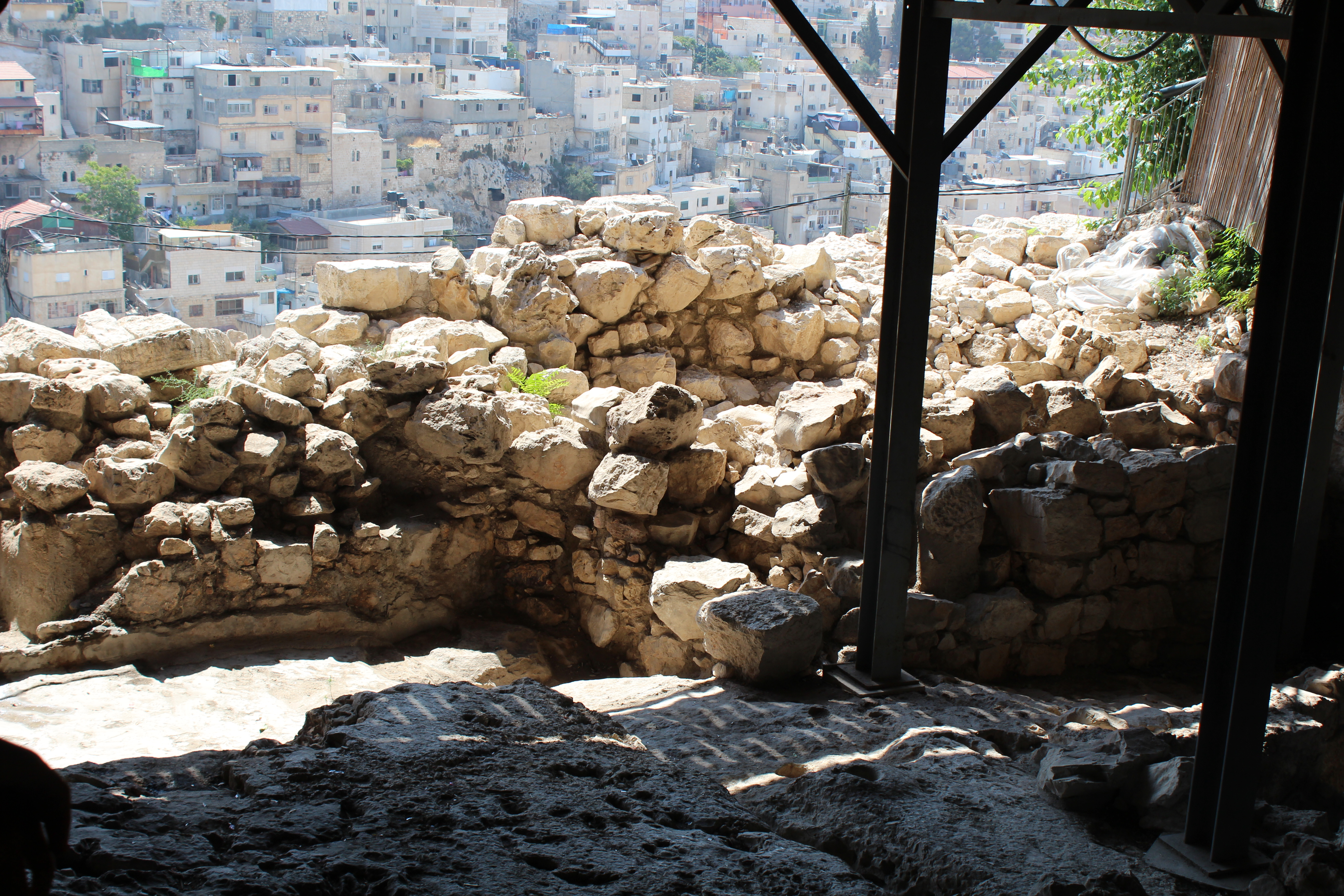 King David's Palace, City of David, Jerusalem This image was taken as part of the Elef Millim project trip to the City of David, in Jerusalem which was held on Friday, 16th August 2013. To view all images uploaded as part of the Elef Millim Project